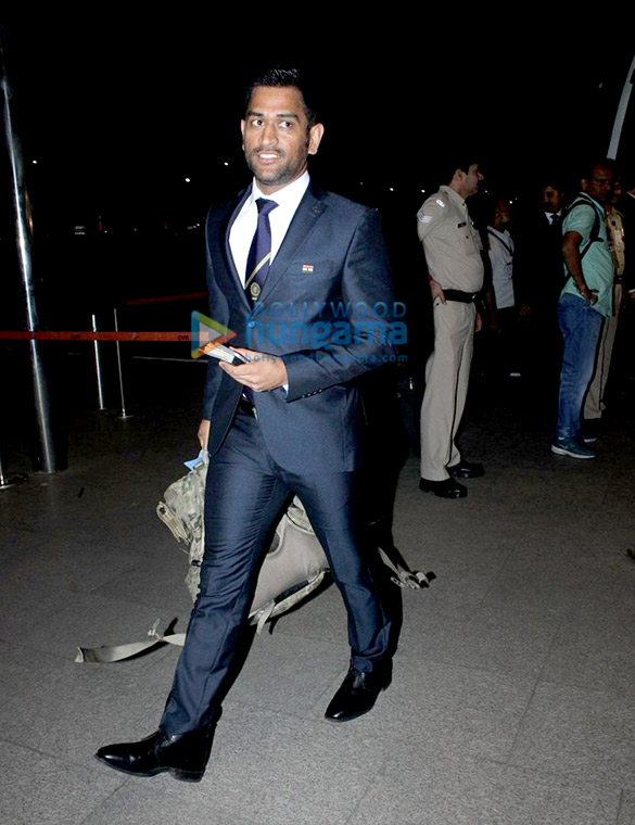 Indian cricketer Mahendra Singh Dhoni